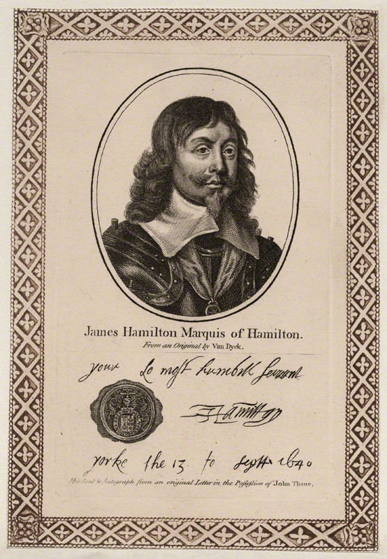 Line engraving of James Hamilton, 1st Duke of Hamilton after Anthony van Dyck